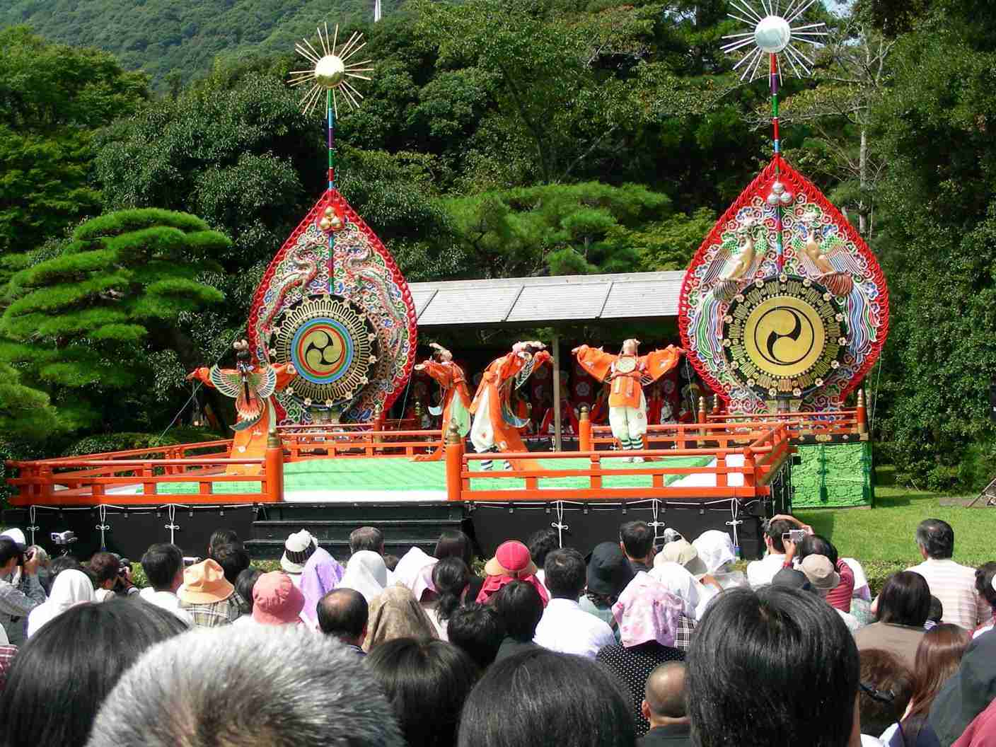 Jingu-Bugaku at Kotaijingu(Naiku), Ise city, Mie Prf., Japan.